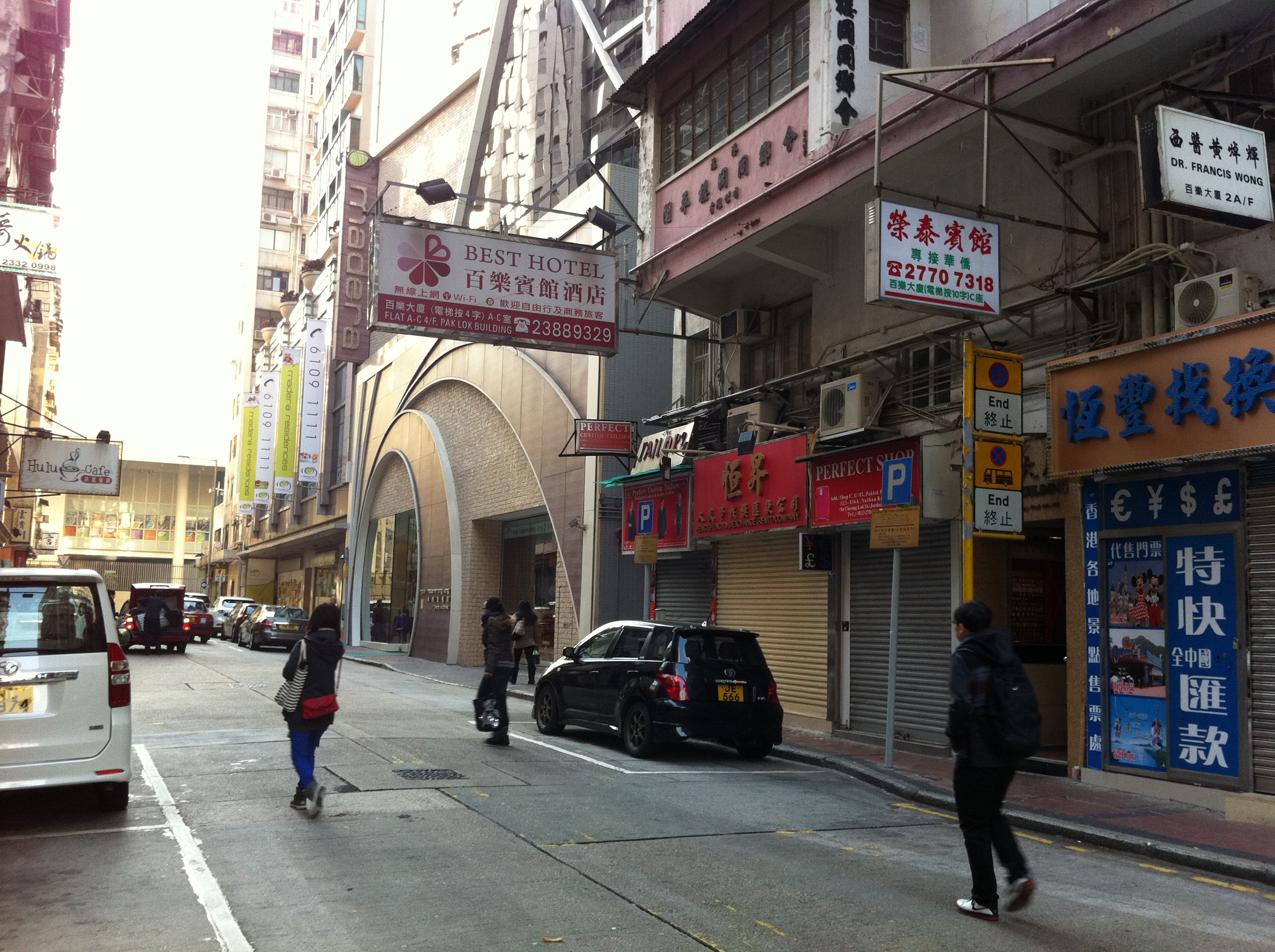 佐敦 彌敦道, Cheong Lok Street, Nathan Road, Jordan, Kowloon, Hong Kong